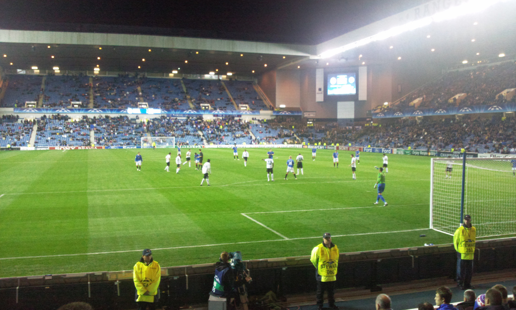 Hanging on to the bitter end...Rangers v Unirea Urziceni 1-4.